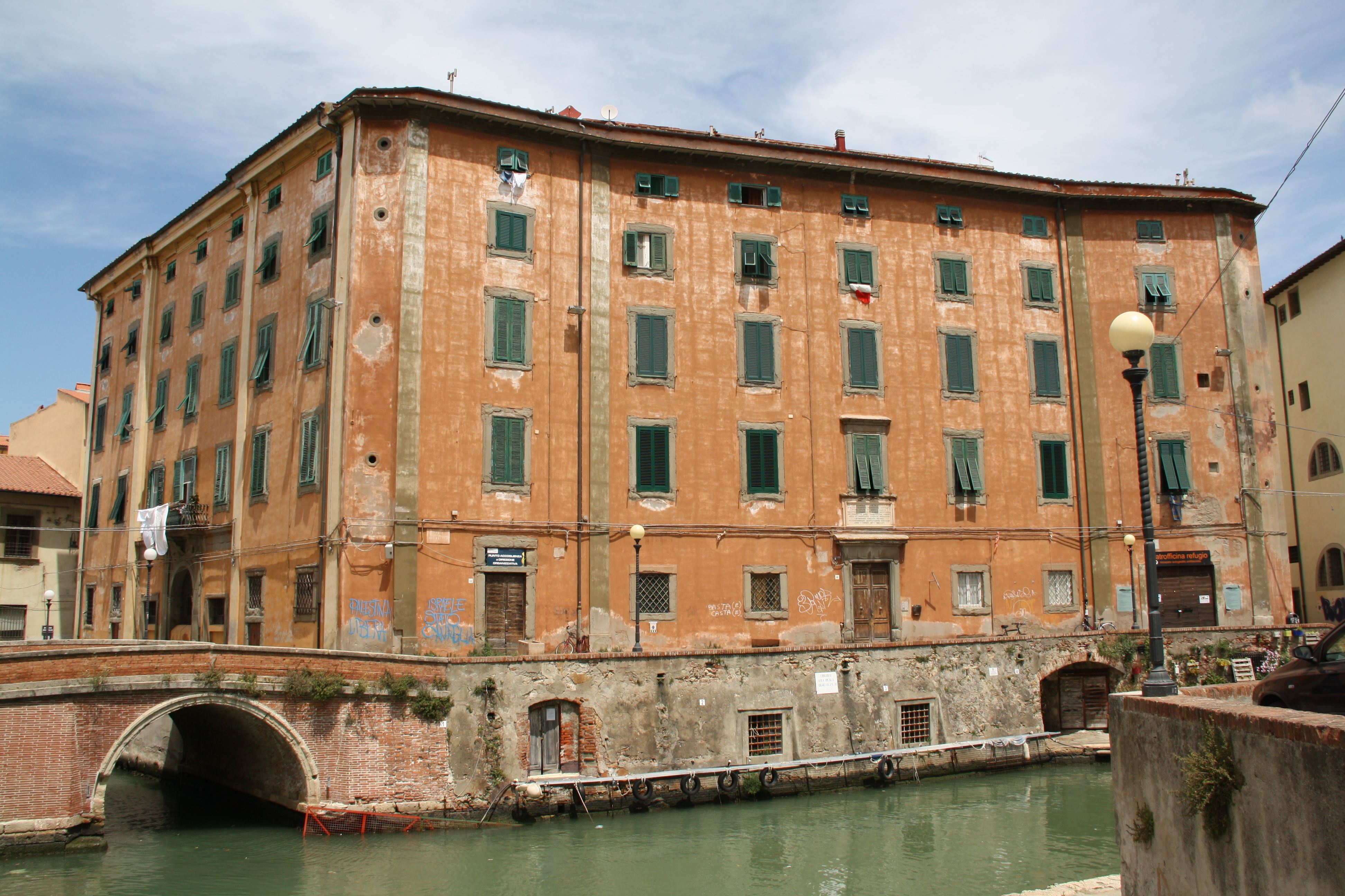 Italy, Livorno, Scali del Refugio. Palazzo del Refugio.